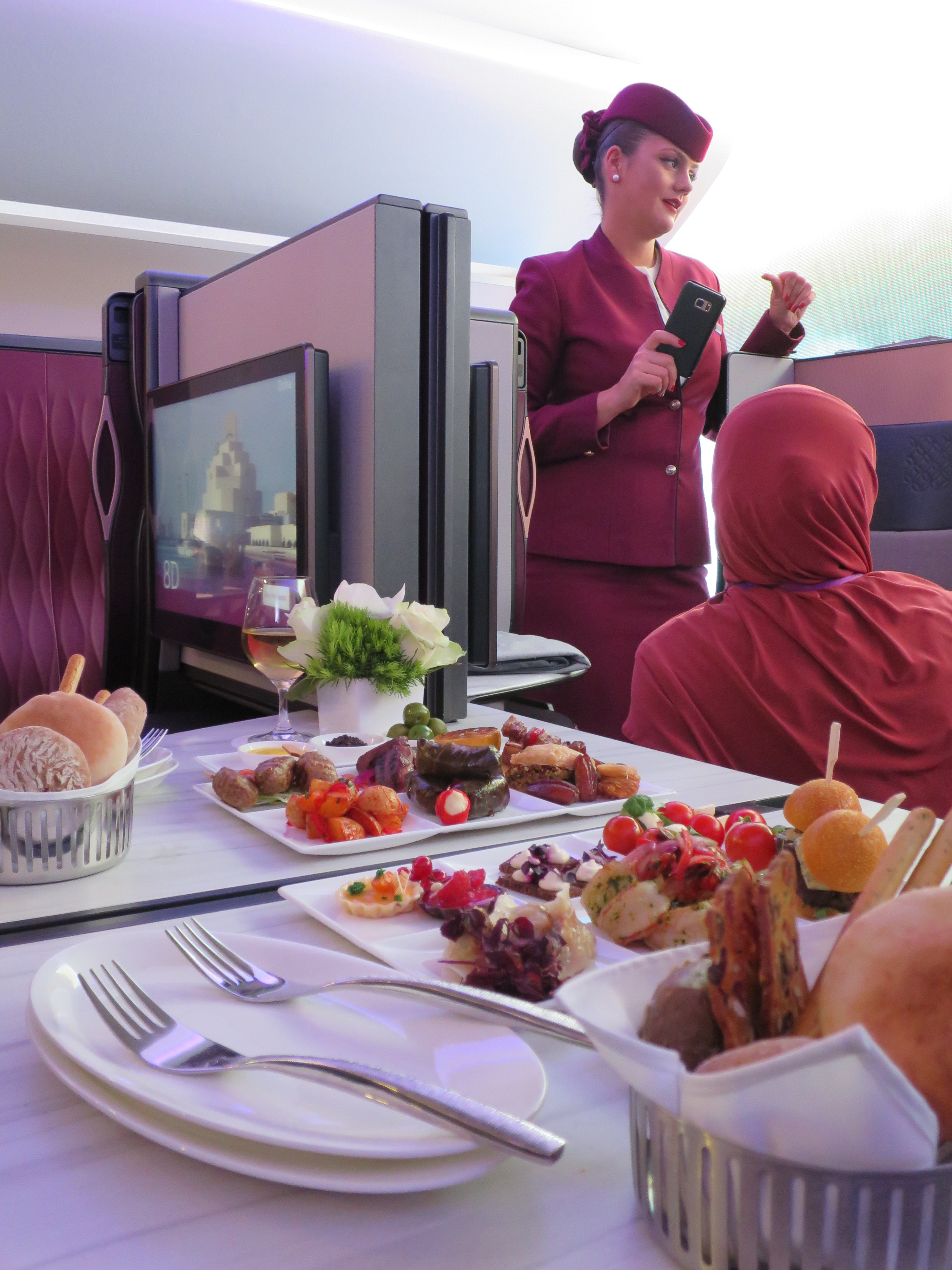 Qatar Airways Qsuite Business Class.